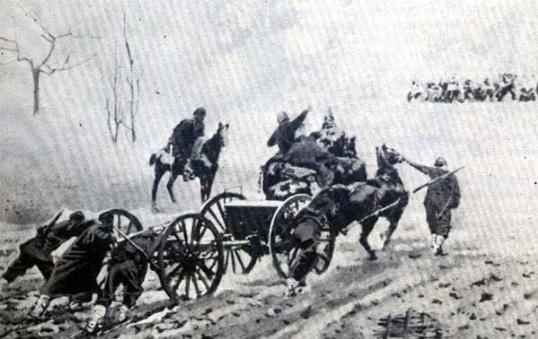 Battle of Sarıkamış soldiers pushing the artillery.